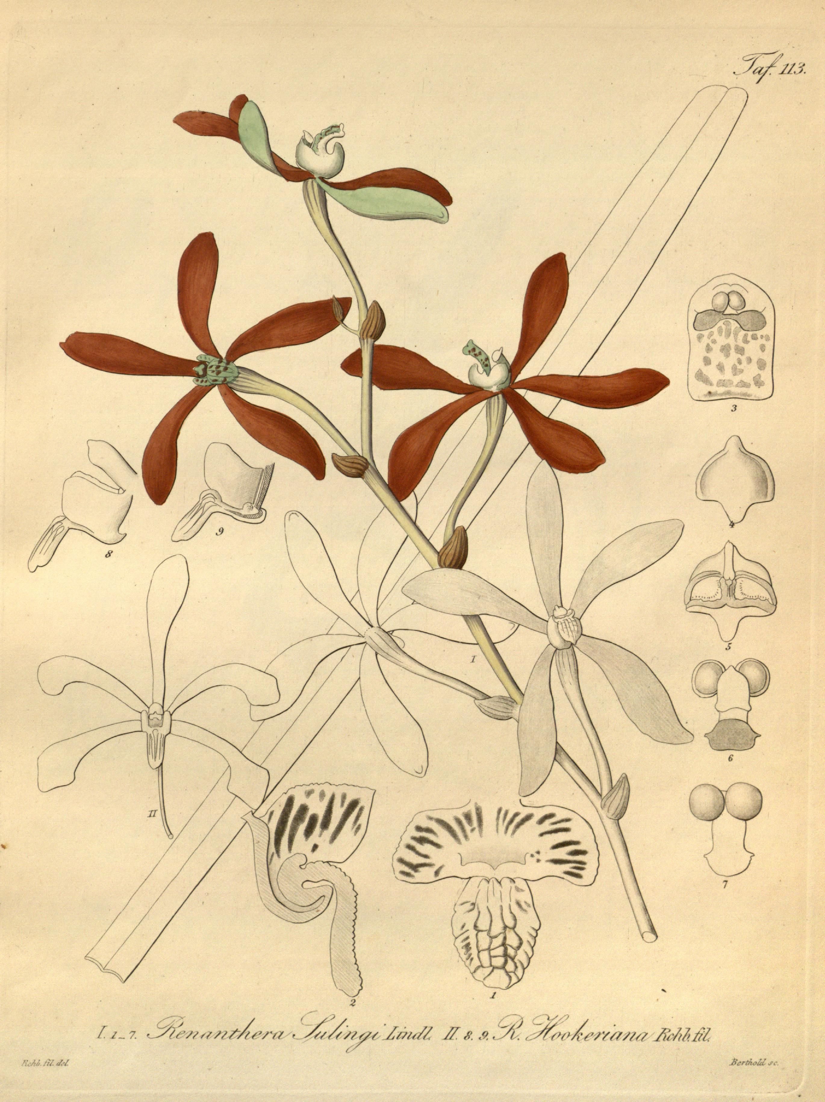 Illustration of I. Armodorum sulingi (as syn. Renanthera sulingi Lindl.) II. Arachnis hookeriana (as syn. Renanthera hookeriana)